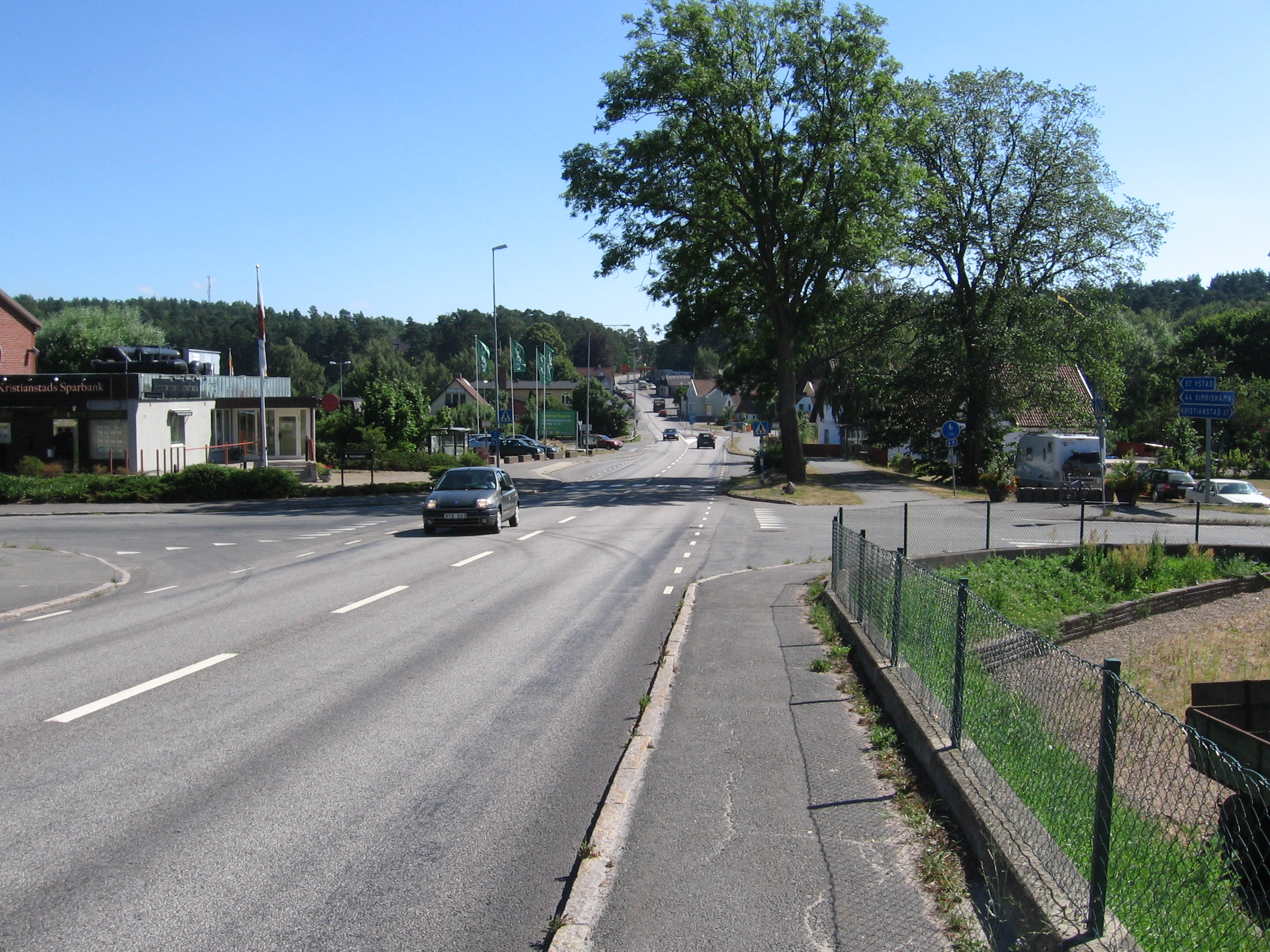 Tingsvägen, main street in Degeberga, southern Sweden.